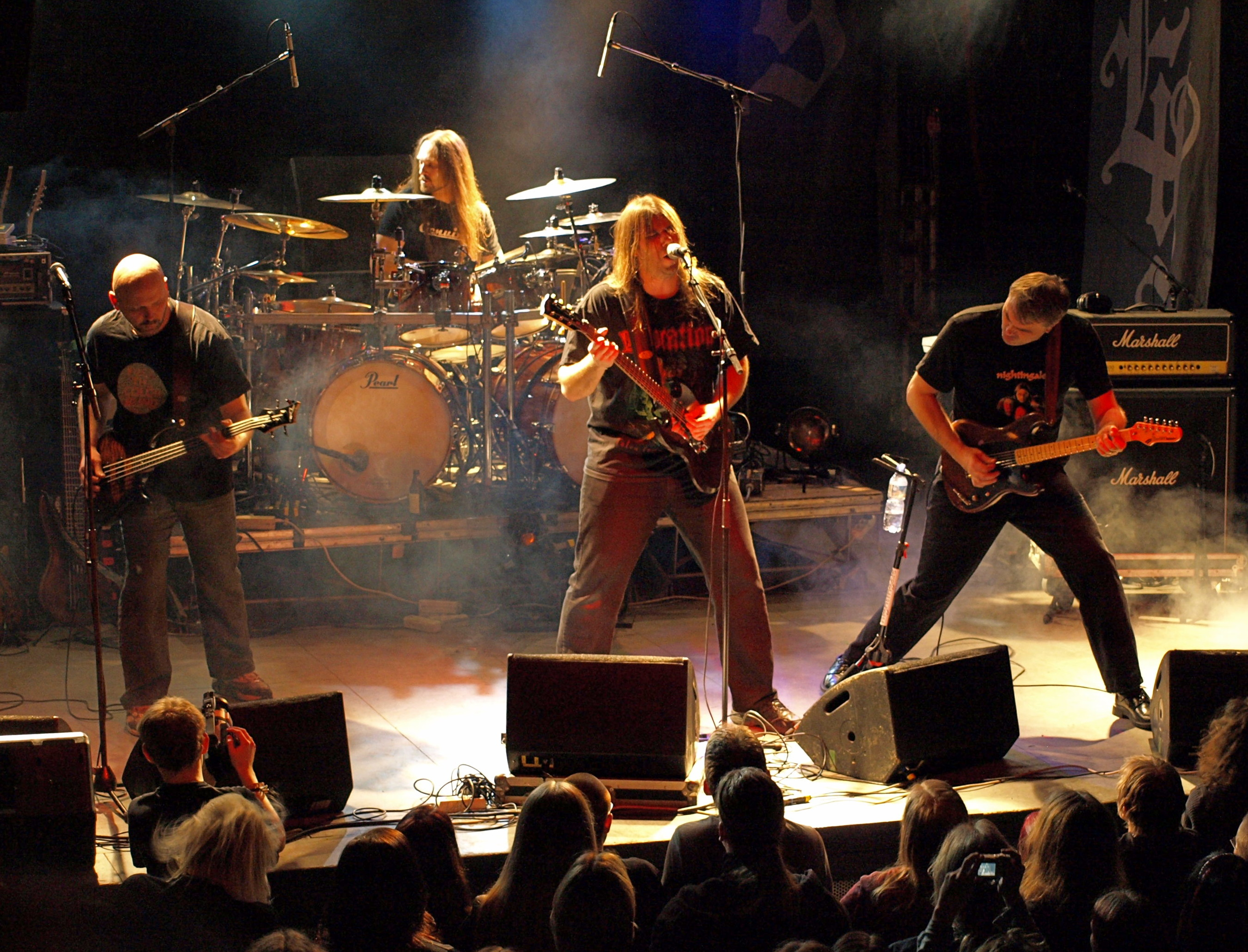 Swedish progressive metal band Nightingale live at Nosturi, Helsinki